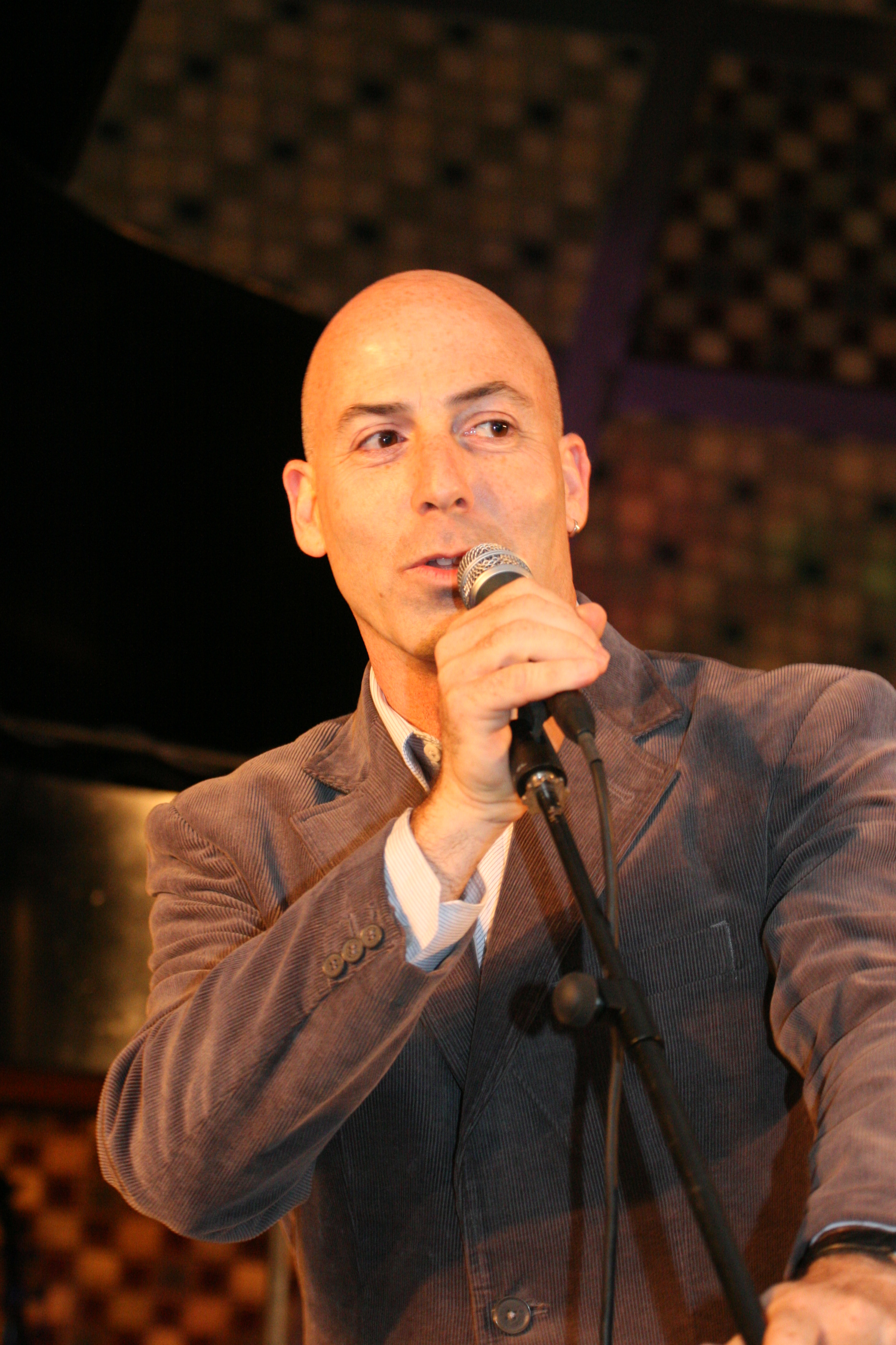 Ofer Portugaly, Jazz pianist, arranger. Part of Iris and Ofer Protugaly Jazz group.